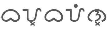 A Sample of Philippines' Pre-Spanish Syllabary.